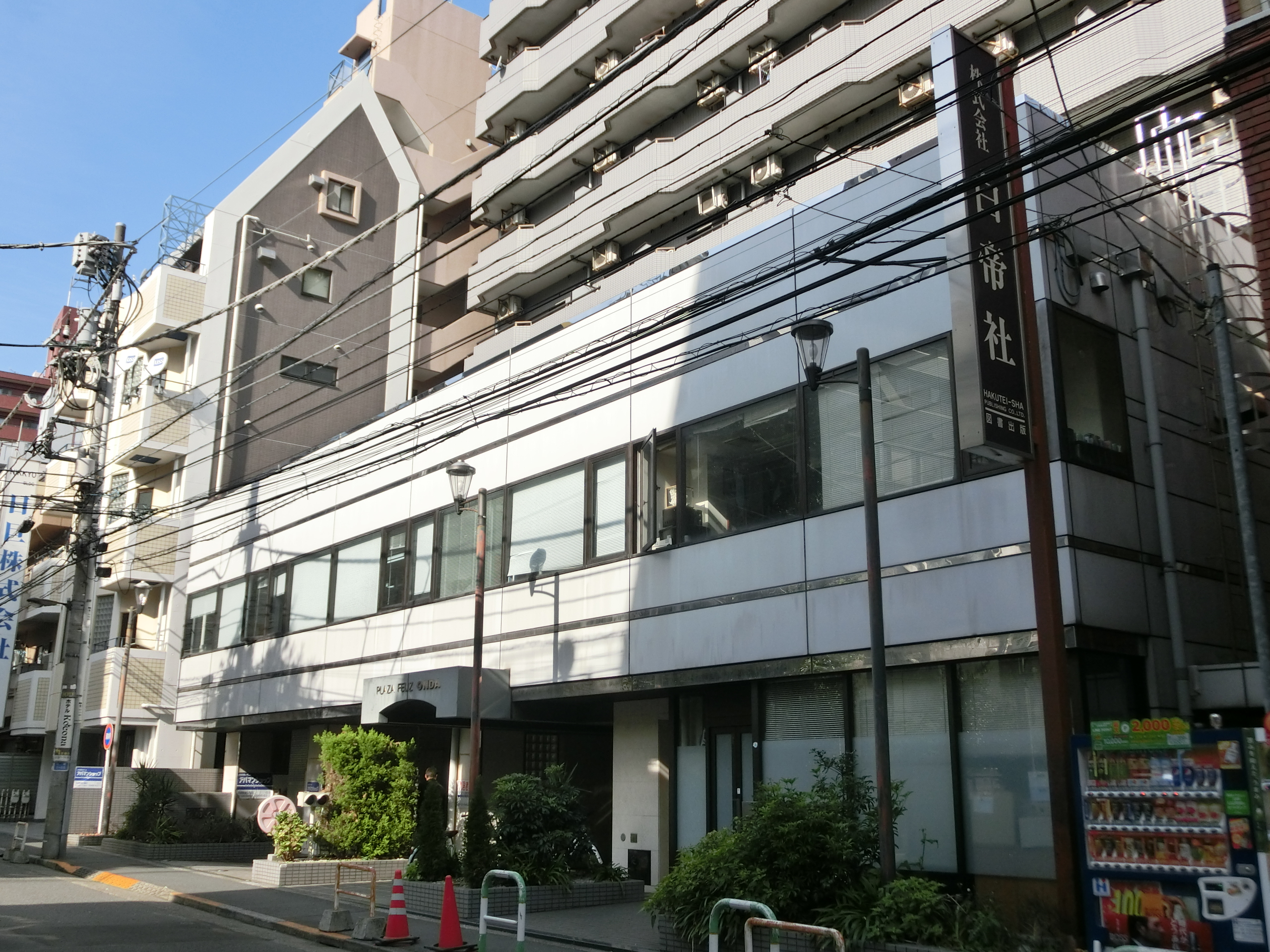 Hakuteisha Head Office